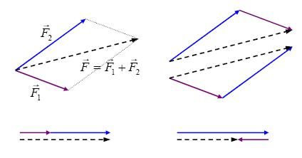 Two forces